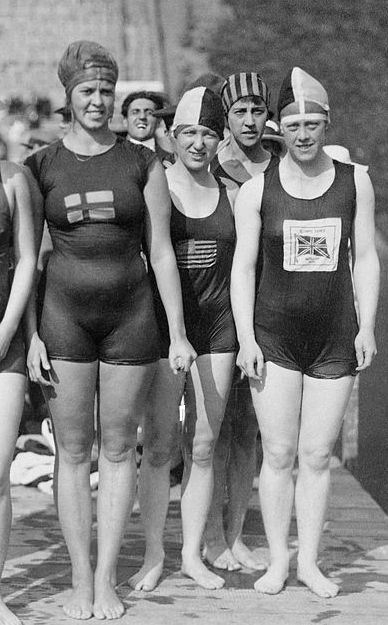 The finalists in the women's 100 metre freestyle swimming event at the Olympic Games in Antwerp, circa August 1920. Left to right: Jane Gylling of Sweden, sixth; Irene Guest of the USA, silver; Frances Schroth, USA, bronze; and Constance Jeans of Great Britain, fourth.